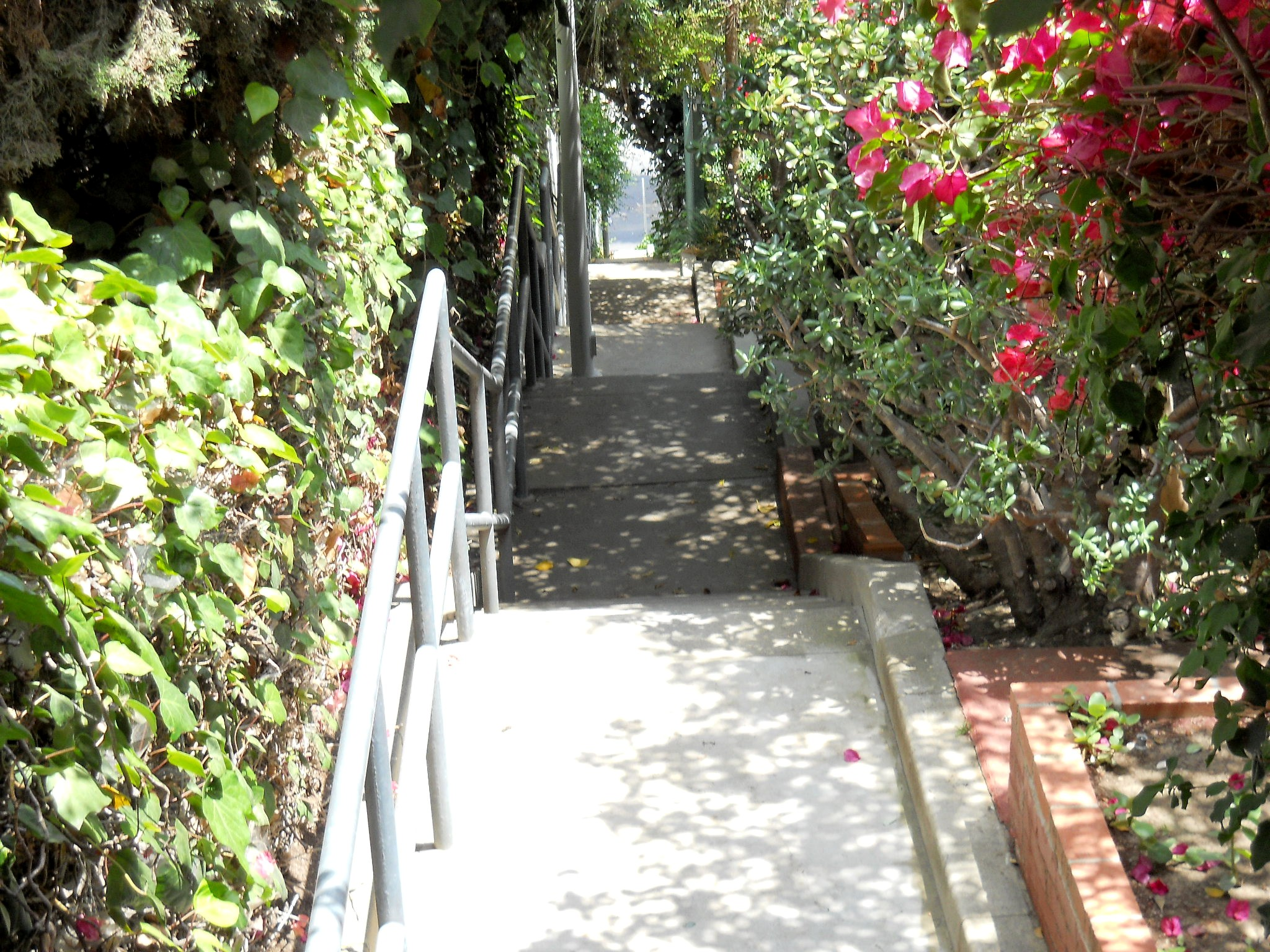 Downward view of steps used in Laurel and Hardy short comedy film The Music Box (1932), in the Silver Lake section of Los Angeles.